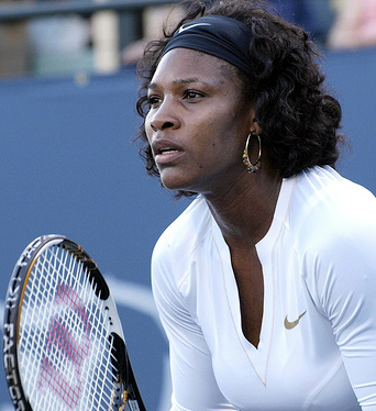 Serena Williams at the U.S. Open Series at Stanford 2008 playing Michelle Larcher de Brito.